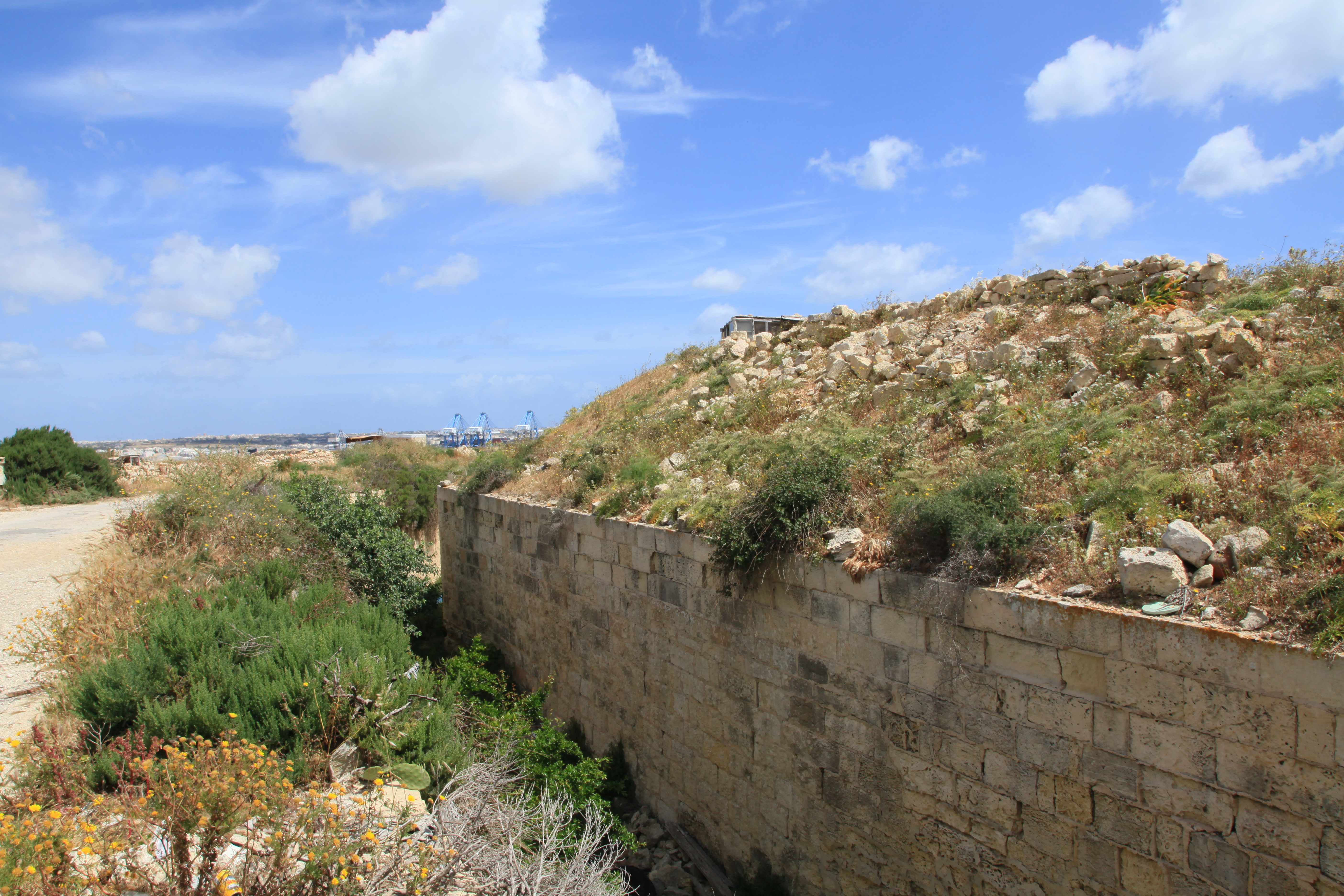 Fort Bengħajsa at Triq Bengħajsa in Birżebbuġa, Malta